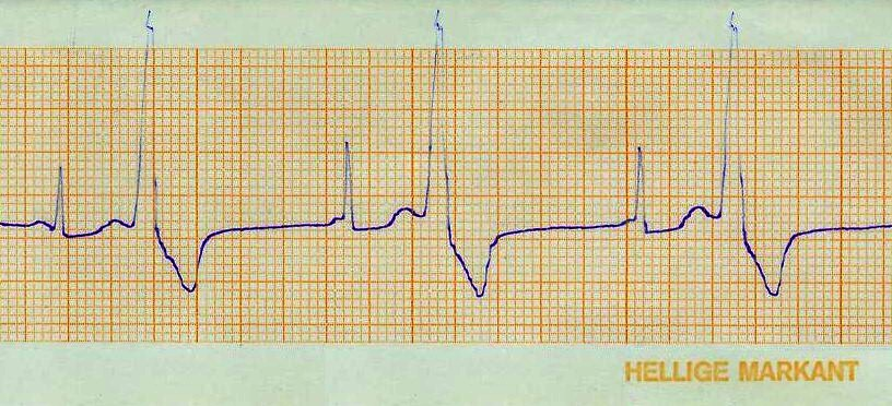 A ventricular bigeminus with premature extrasystoles.